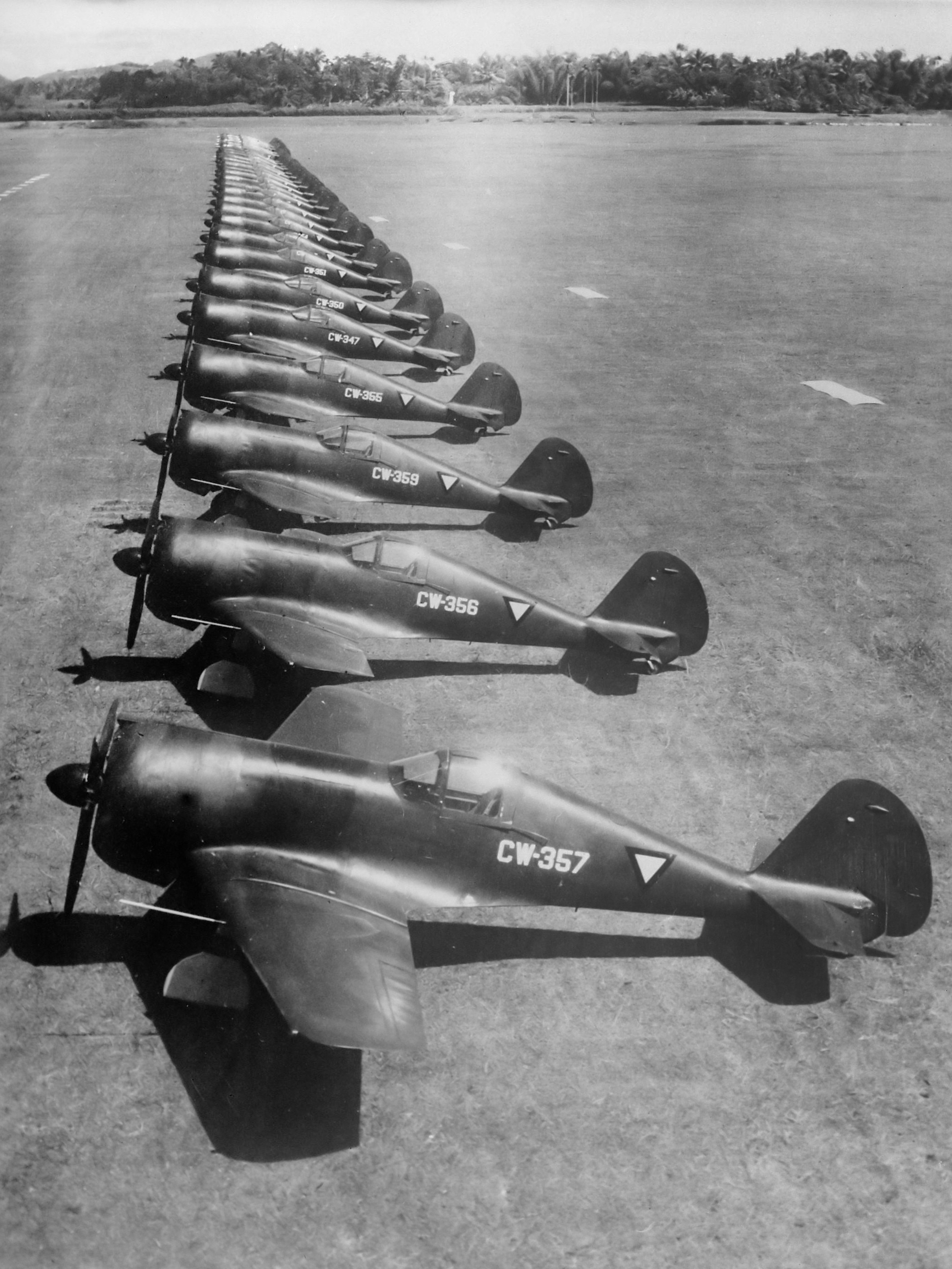 Curtiss CW-21B Interceptor jagers van de Militaire Luchtvart KNIL staan in een rij opgesteld 1941